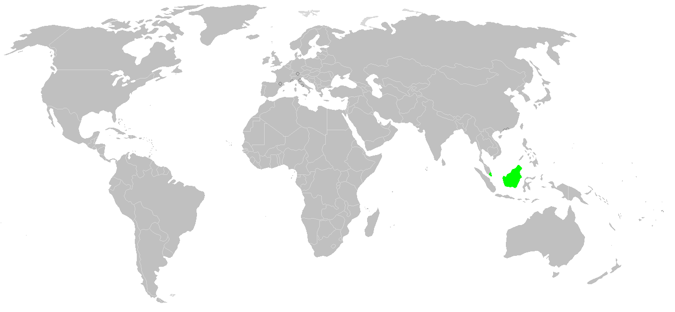 Known world distribution of Misumenops nepenthicola (Thomisidae).